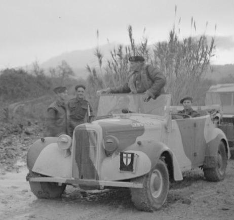 The British Army in Italy 1943 General Montgomery stops his staff car to offer cigarettes to troops digging out a bogged Sherman tank, while visiting the Sangro front, 21 November 1943.